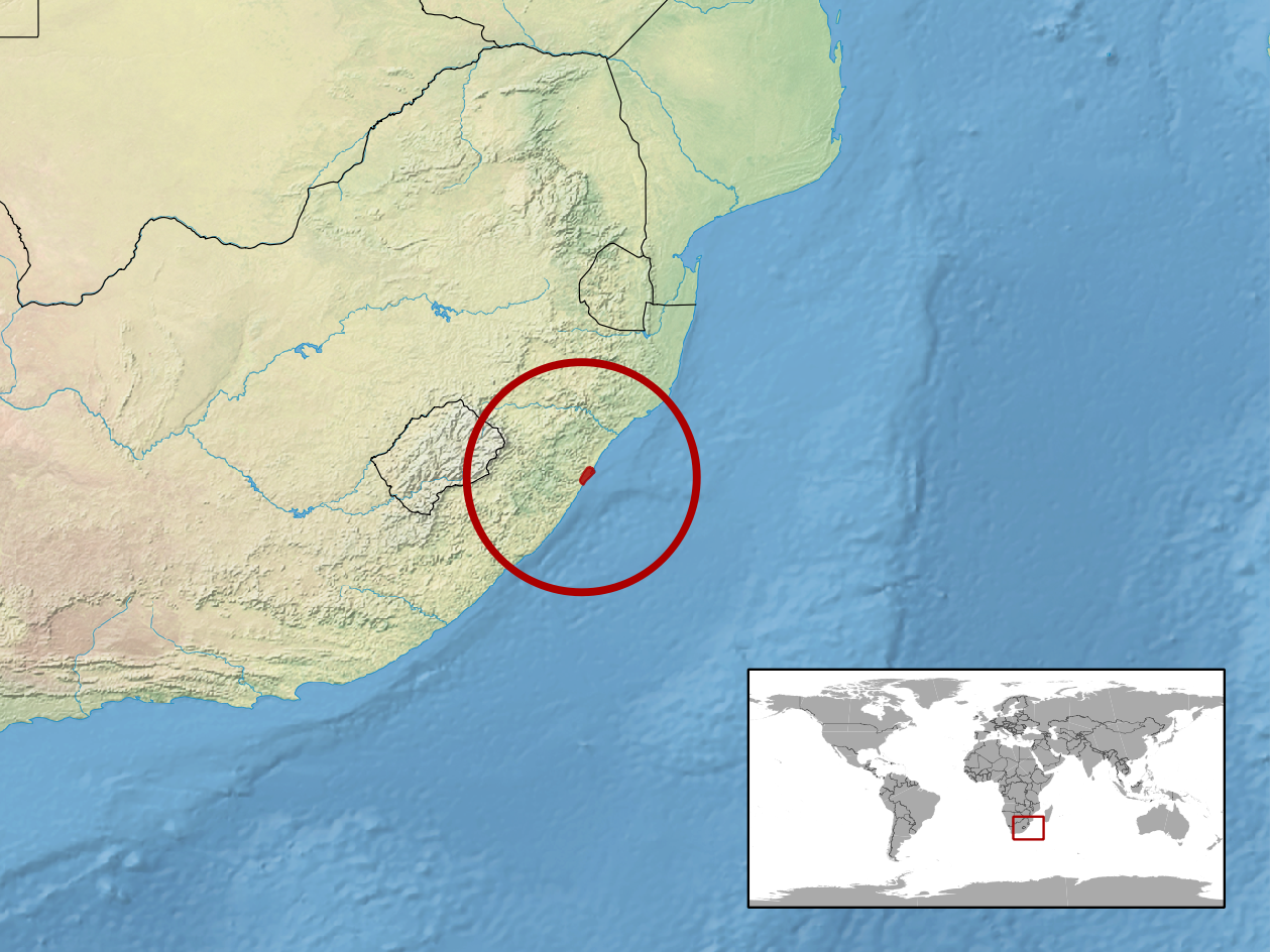 geographic distribution of Scelotes inornatus